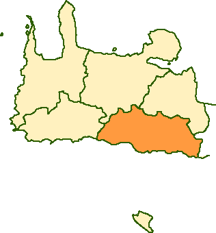 Map of Sfakia province, Crete